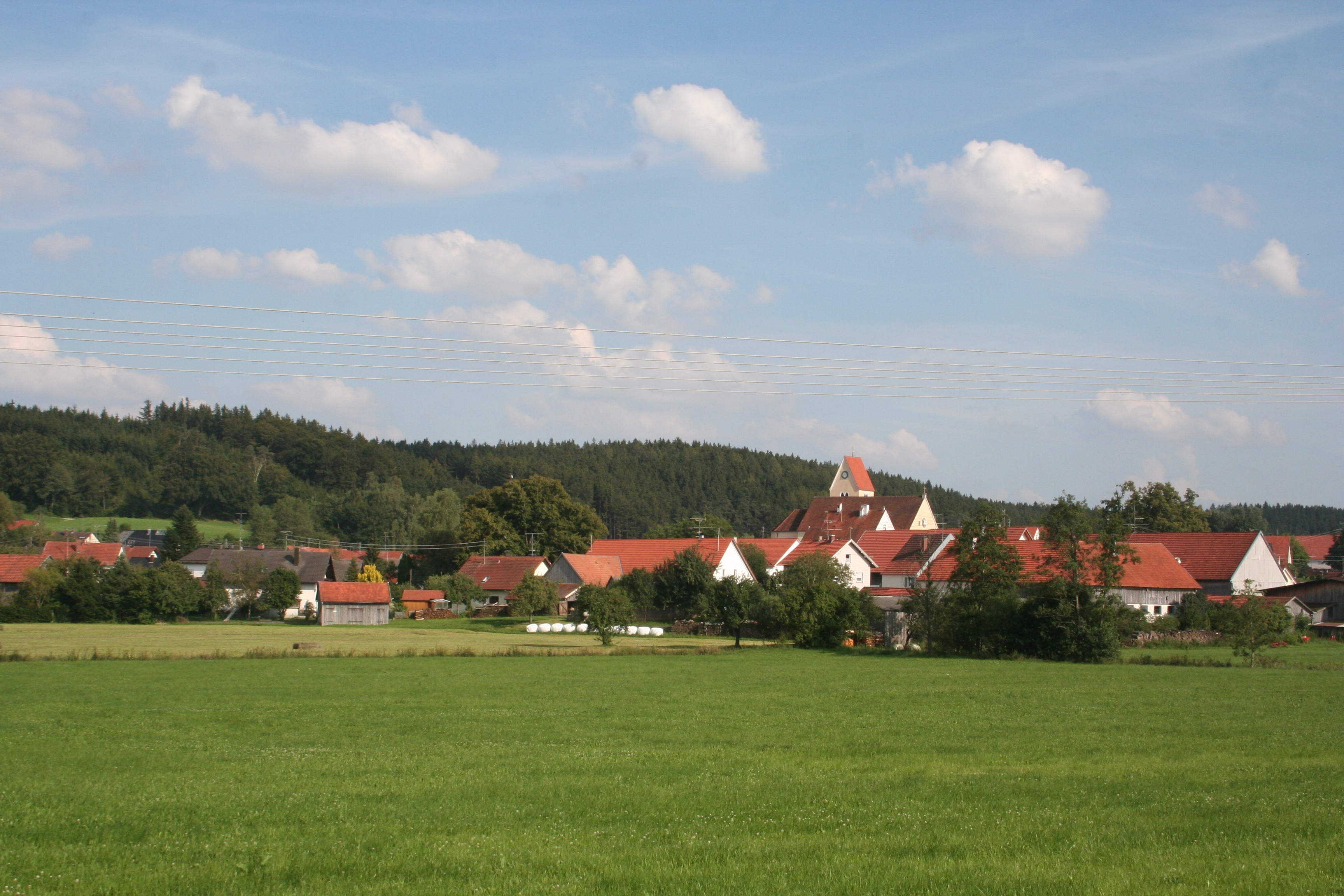 look at Waltenhausen from northwest